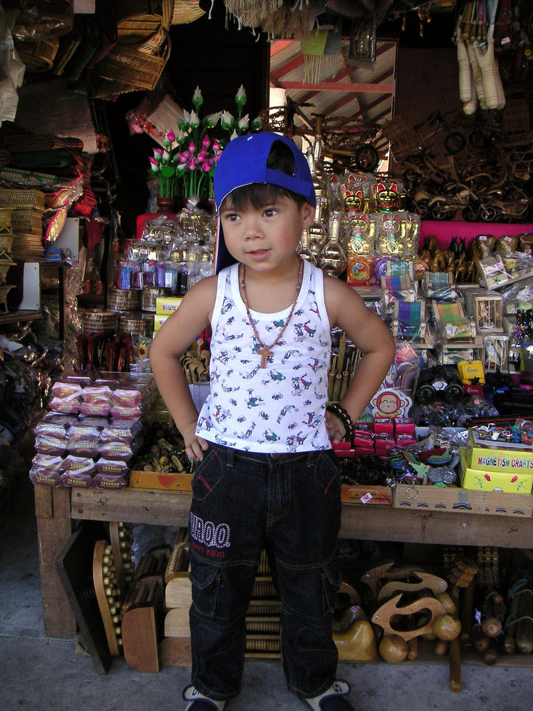 A child in Thailand selling souvenirs